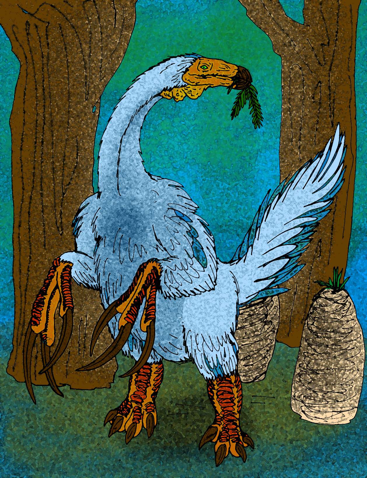 User:Apokryltaros reconstruction of Therizinosaurus cheloniformis (c) Stanton F. Fink